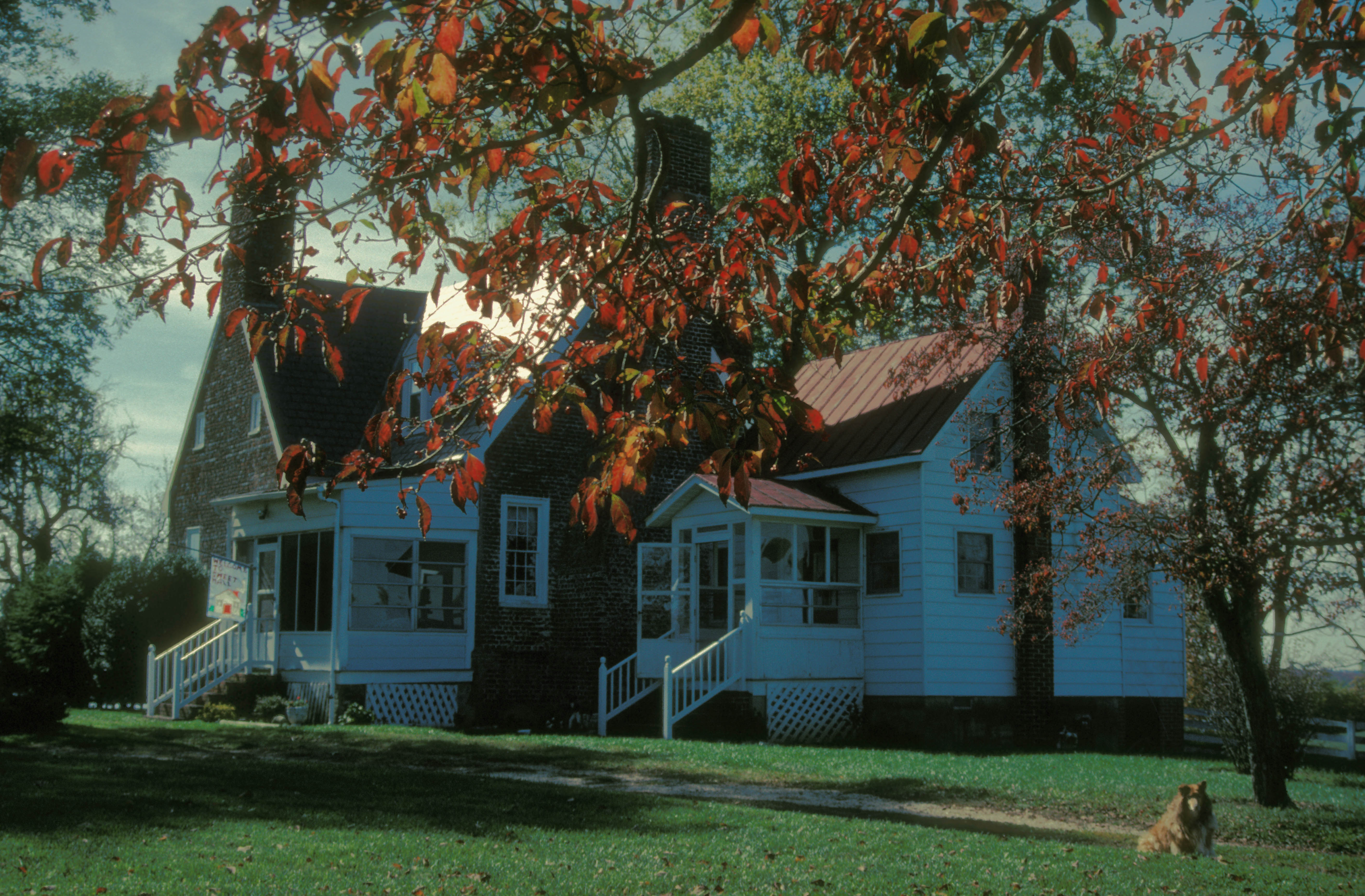 1720; HOMESTEAD OF WM. CLAIBORNE, 1ST SECRETARY OF THE COLONY; WINDOWS WERE AT AN UNUSUAL HEIGHTS TO PREVENT INDIANS FROM FIRING ARROWS FROM THE PAMUNKEY RIVER